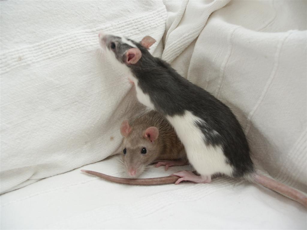 Two Female Pet Rats - Ally and Ling